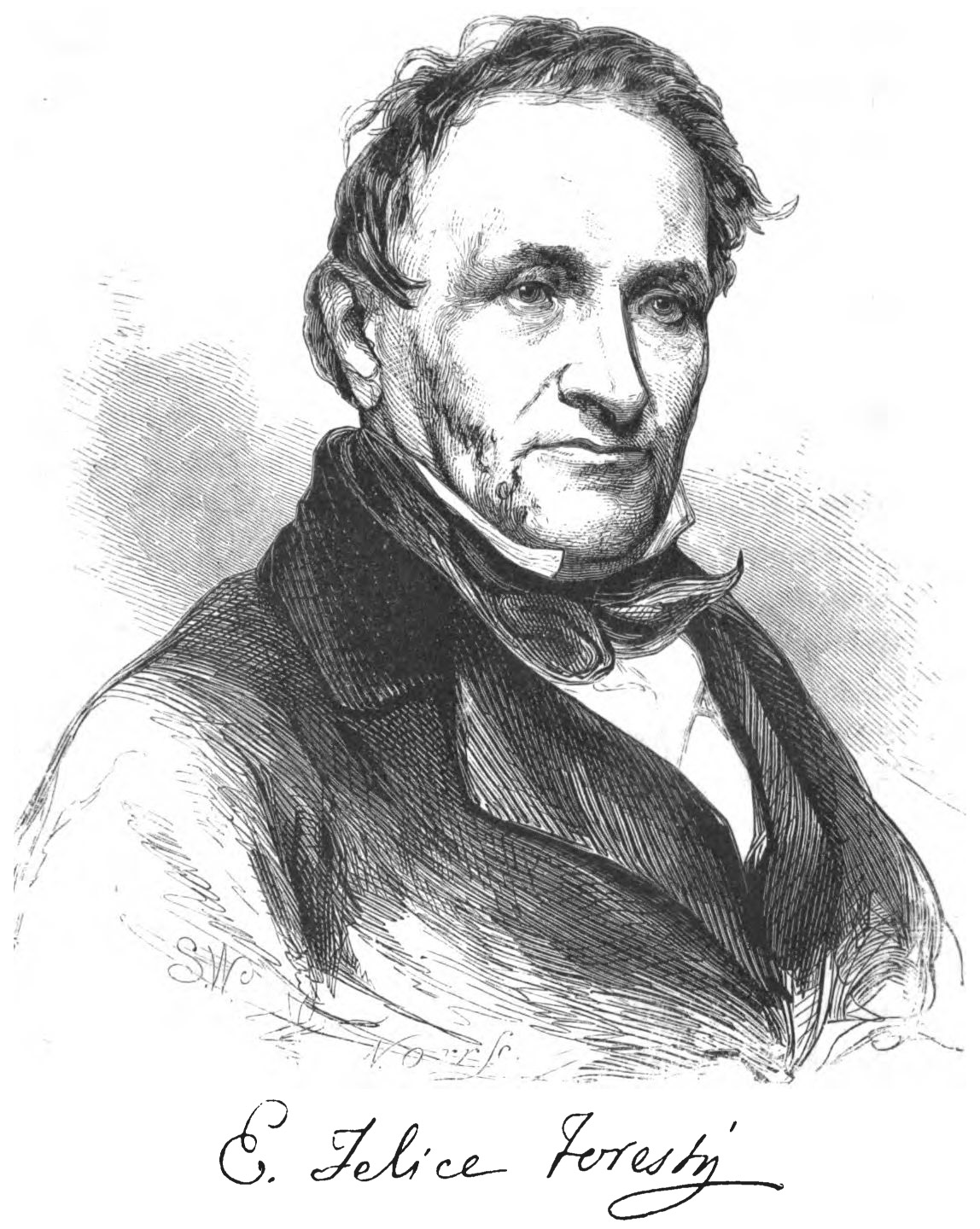 Portrait of Eleuterio Felice Foresti published in 1851